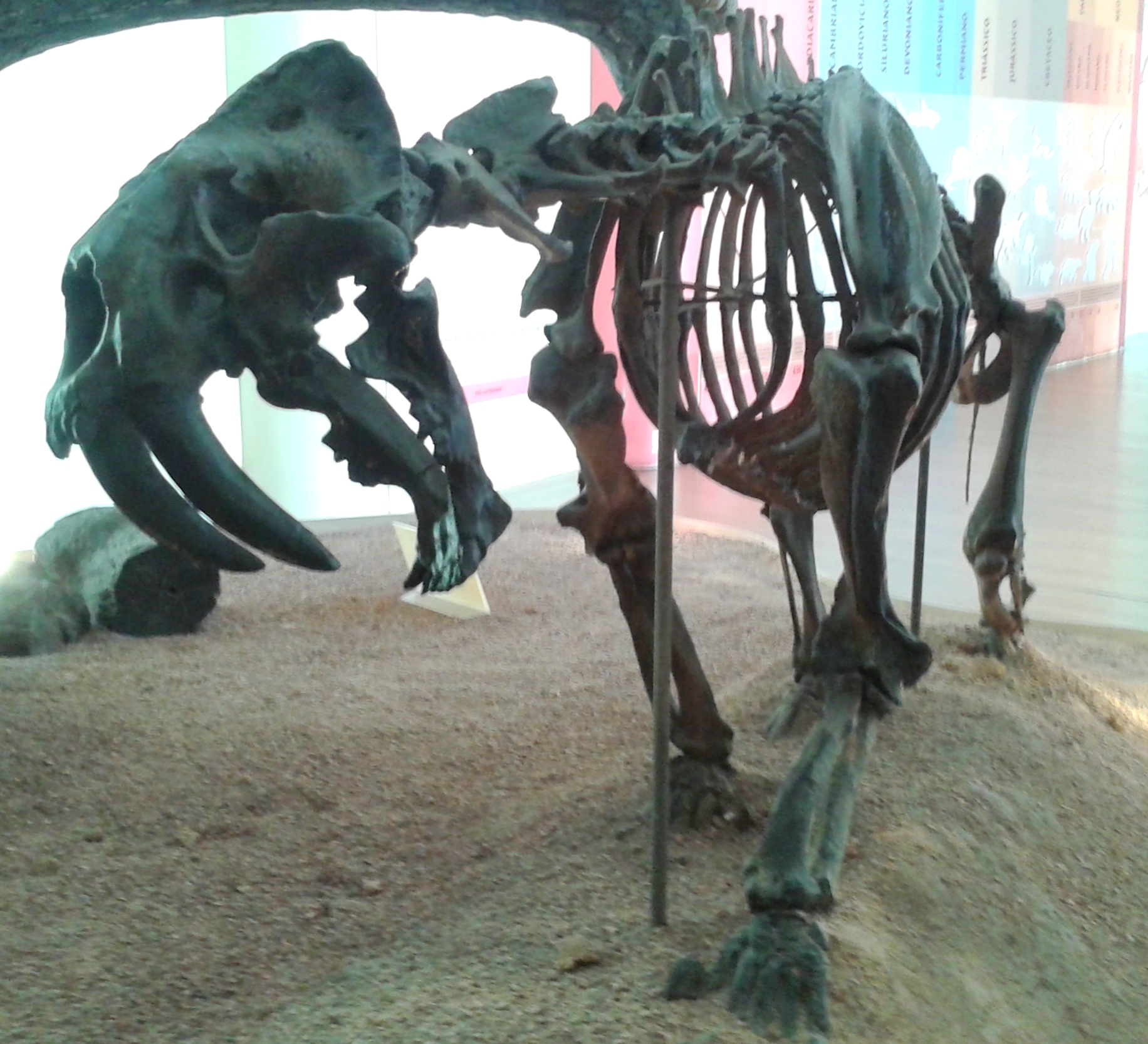 Classification: Carnivora, Machairodontinae Size: 3 meters (length) weight: 300 kg Feeding: carnivore